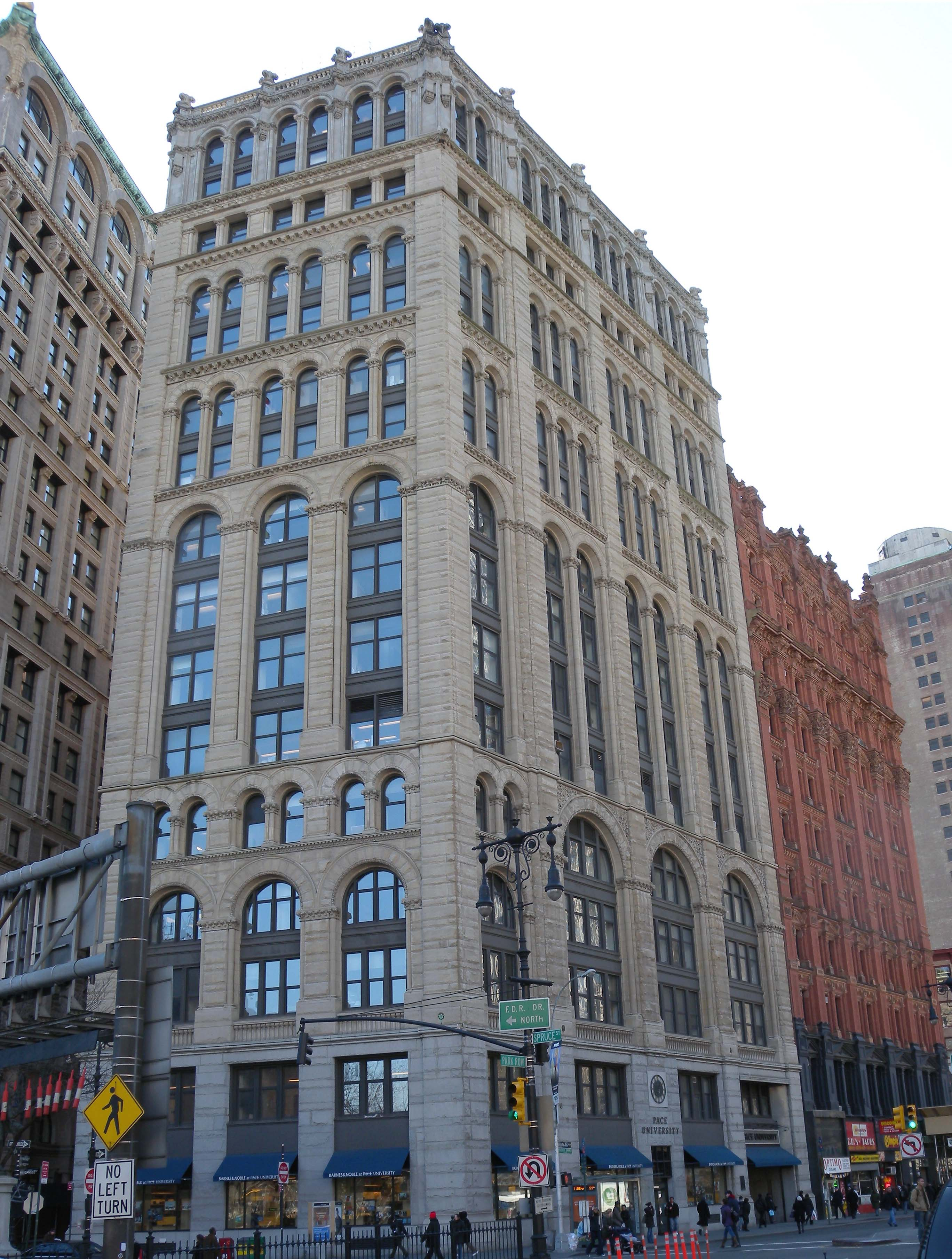 Looking south at Pace University's en:41 Park Row, HQ of New York Times until the 20th century, on a sunny midday. 1889 building replaced the 1851 building at the same site. NYCLPC designation 1999. Manhattan Community Planning Board 1. EXIF date of photo is uncertain by a few days.